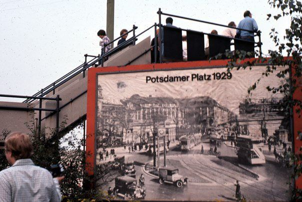 People atop an observation deck overlooking Potsdamer Platz in Berlin, with a placard showing a 1929 view of the same place.